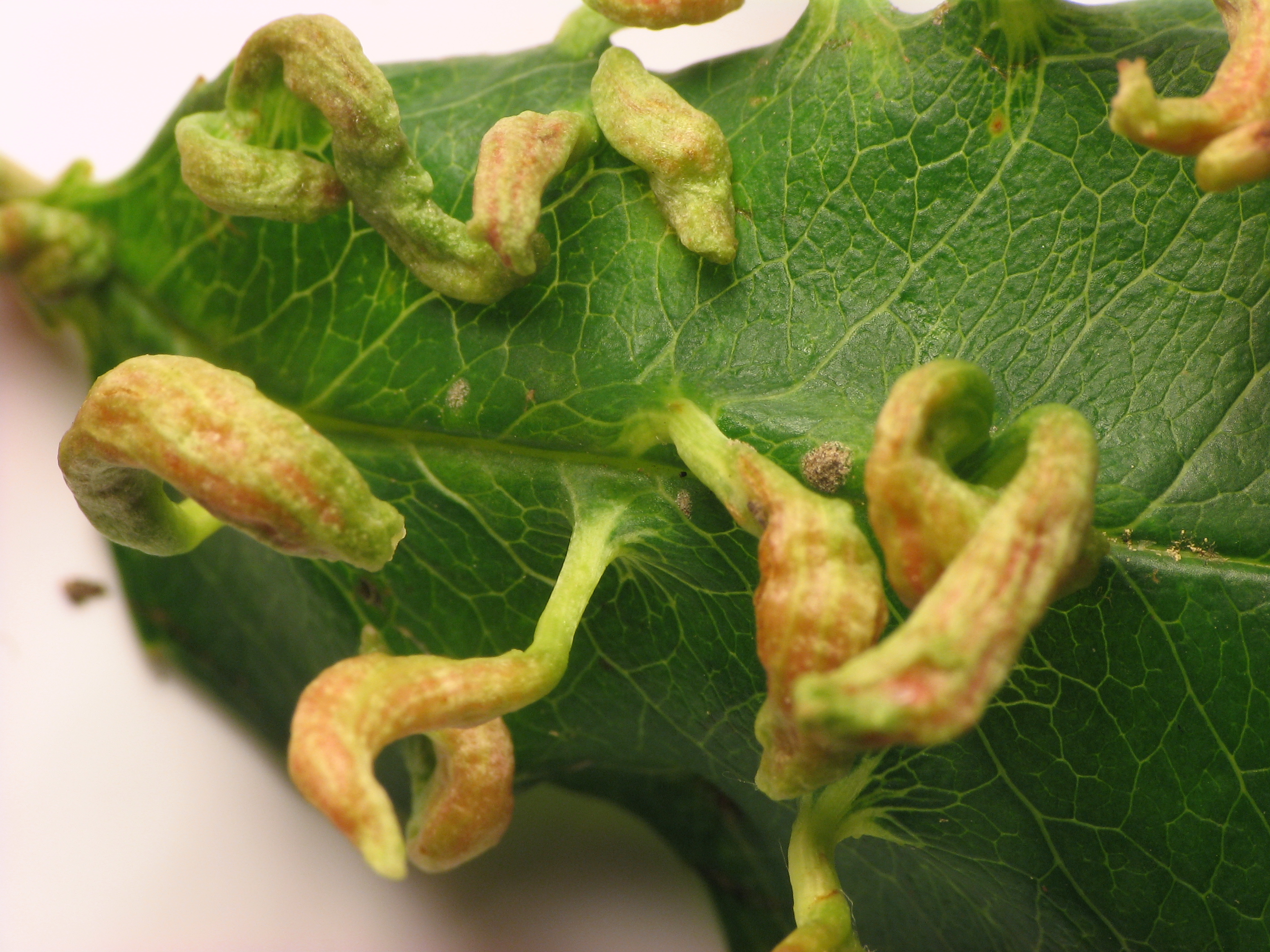 Galls made by Eriophyes cerasicrumena on cherry tree. Montgomery County, Pennsylvania, USA.